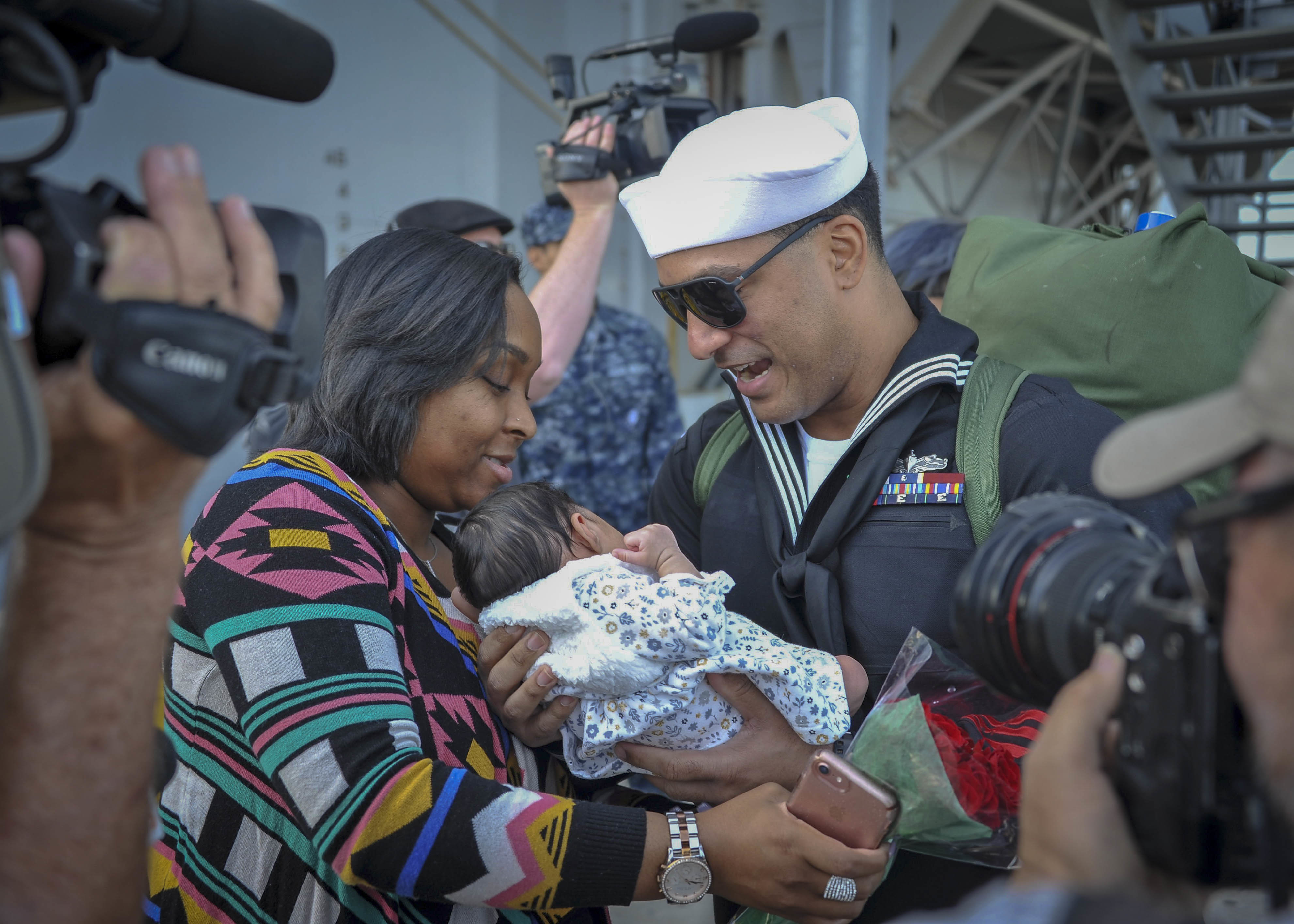 SAN DIEGO (Feb. 2, 2018) Operations Specialist 2nd Class Jesse Soto holds his newborn child for the first time during the homecoming of the amphibious assault ship USS America (LHA 6). America, part of the America Amphibious Ready Group, with embarked 15th Marine Expeditionary Unit (MEU), is returning from a regularly scheduled deployment to the Western Pacific and Middle East. The U.S. Navy has patrolled the Indo-Pacific region routinely for more than 70 years promoting peace and security. (U.S. Navy Photo by Mass Communication Specialist 2nd Class Jesse Monford/Released) 180202-N-GZ228-089 Join the conversation: navylive.dodlive.mil